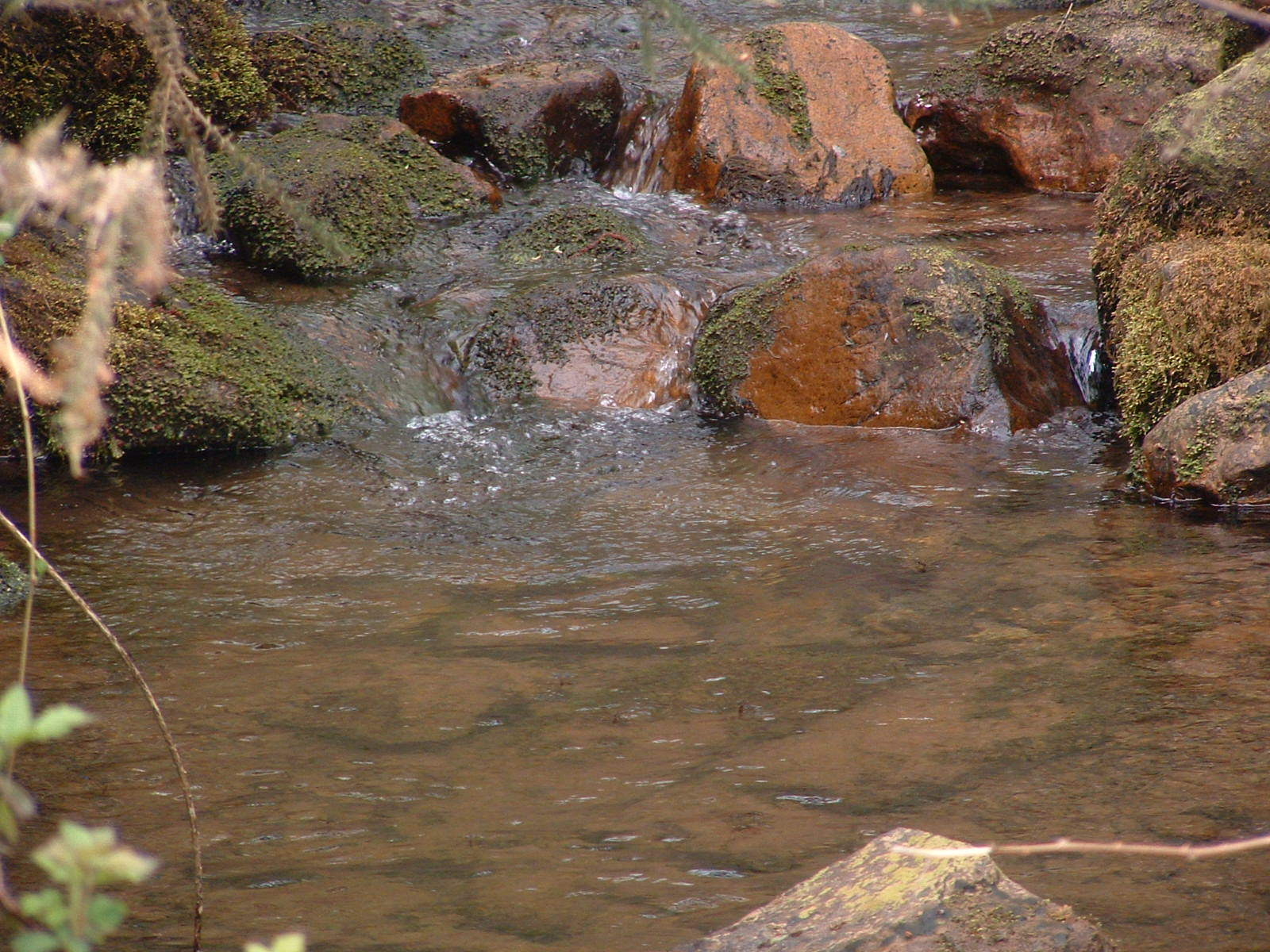 Rebujas River (San Mateo-Cantabria) passing by the Costal.